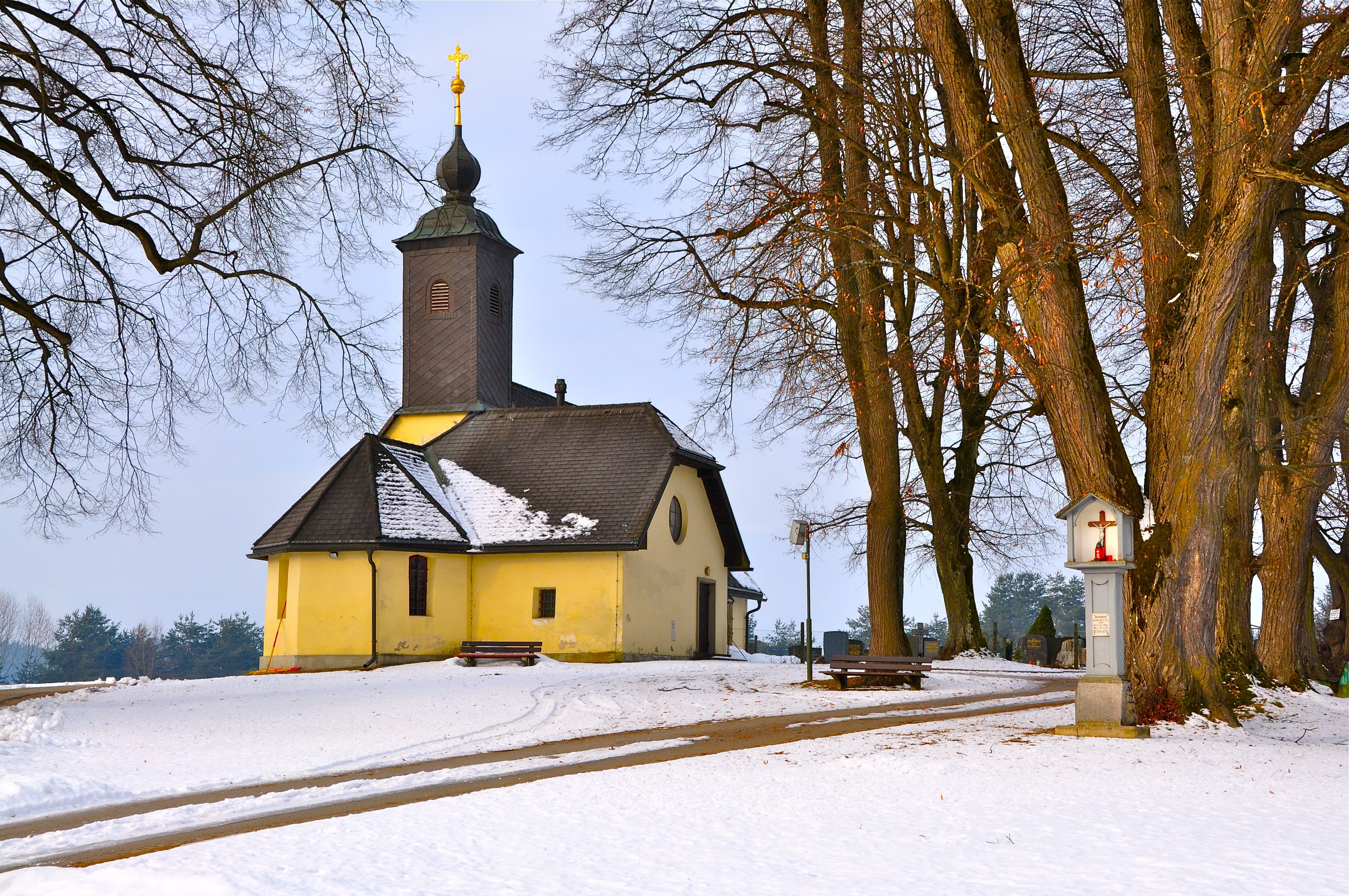 Subsidiary church Saint Ulrich in Sankt Ulrich, city quarter Wernberg II, statutary city Villach, Carinthia, Austria, EU